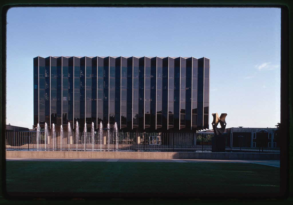 University of Chicago Law School, 1955-63. Law School Note: No known restrictions on publication. Balthazar Korab Archive (Library of Congress).